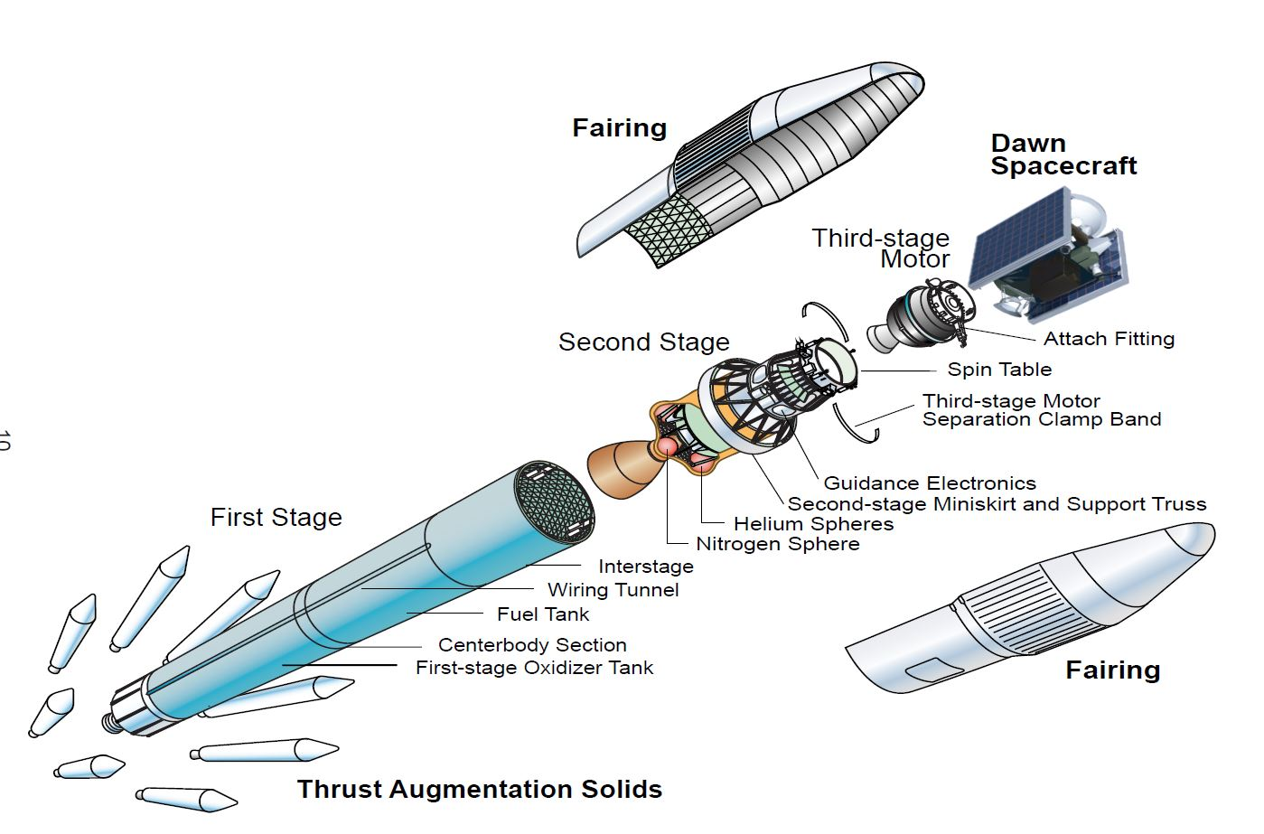 Delta II Heavy 2925H-9.5 including Star 48 upper stage : Dawn launch